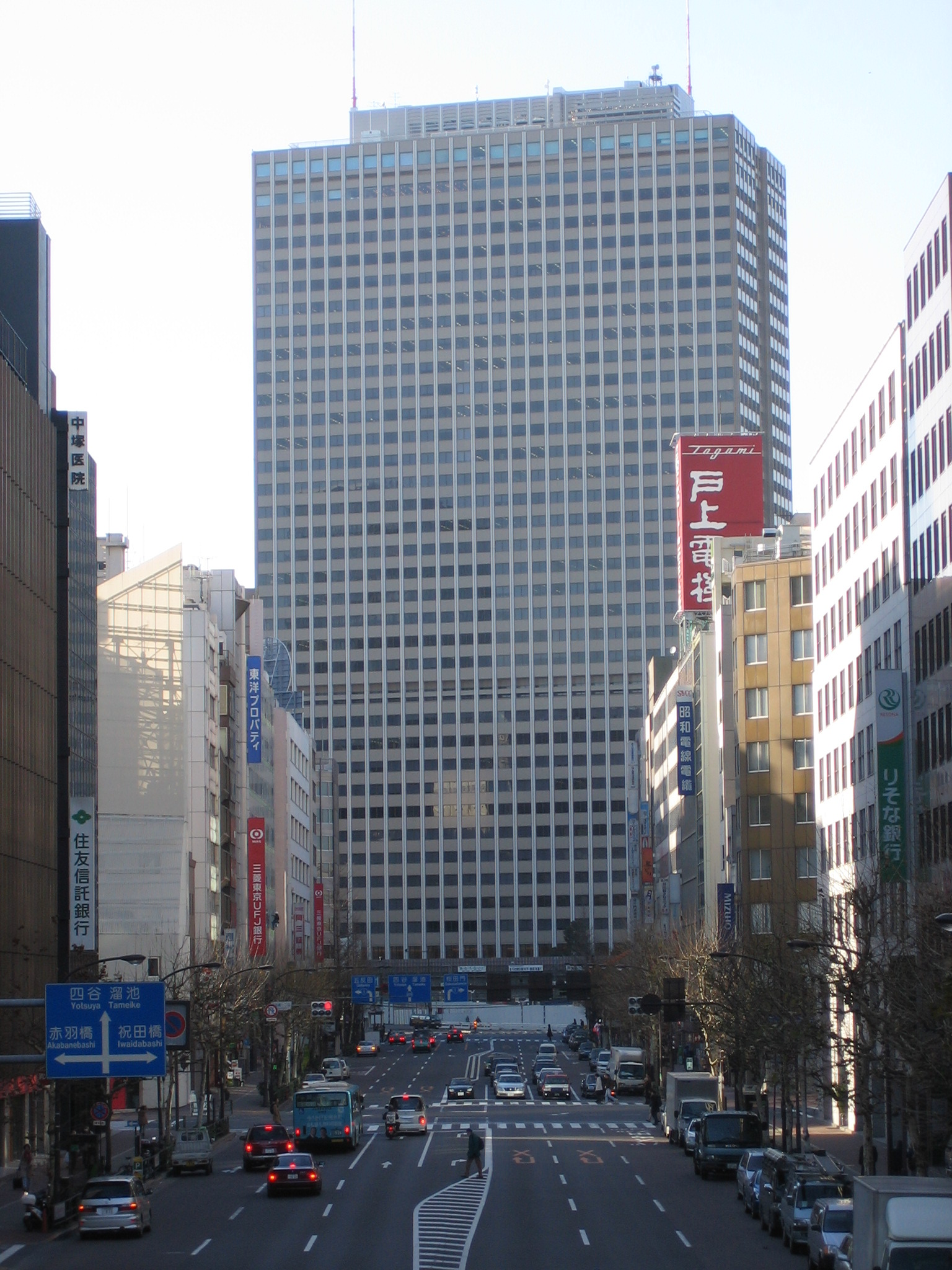 Kasumigaseki Building - Former headquarters of All Nippon Airways, Mitsui Chemicals, and Nippon Cargo Airlines